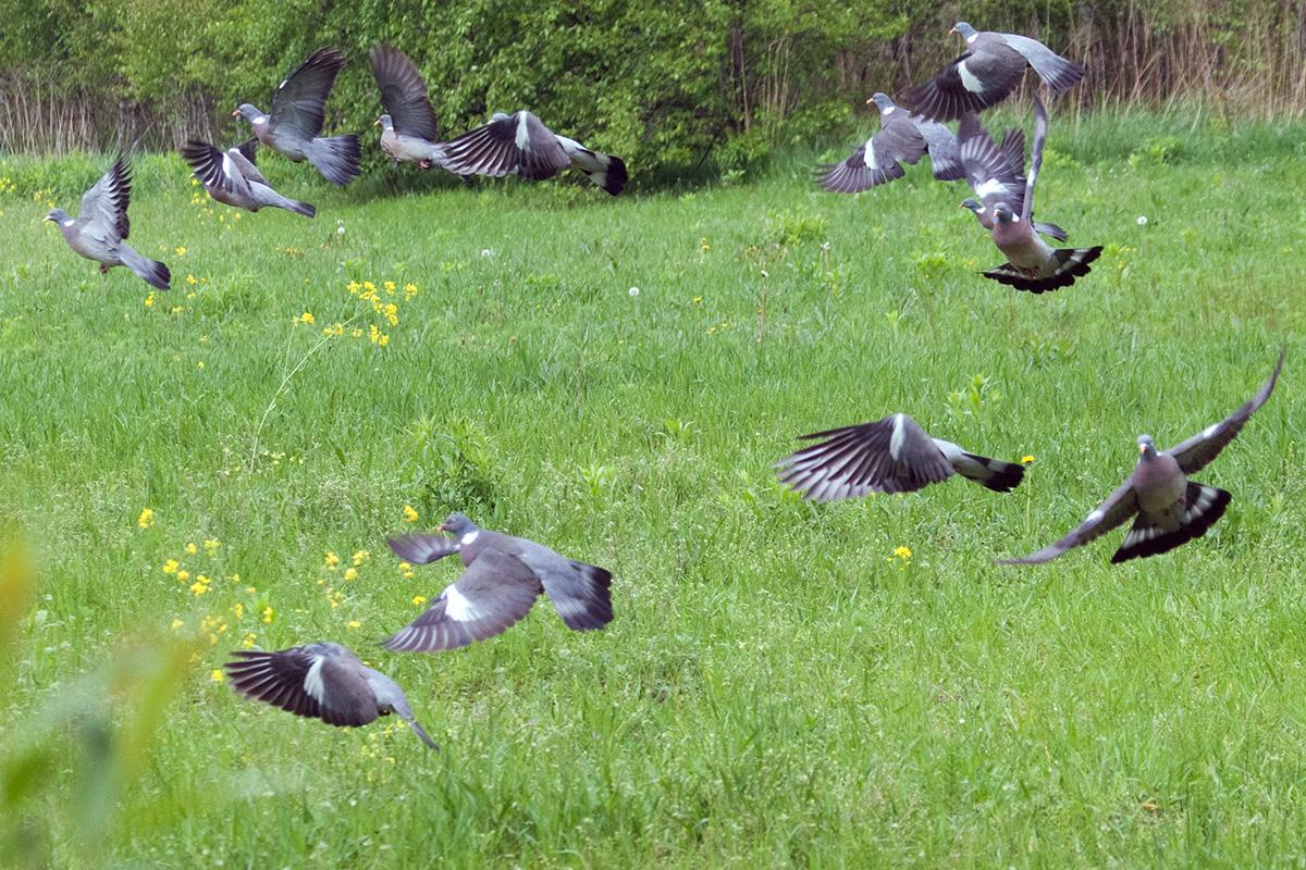 The Common Wood Pigeon, Lodz(Poland)